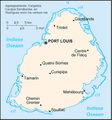 An Afrikaans map of Mauritius.